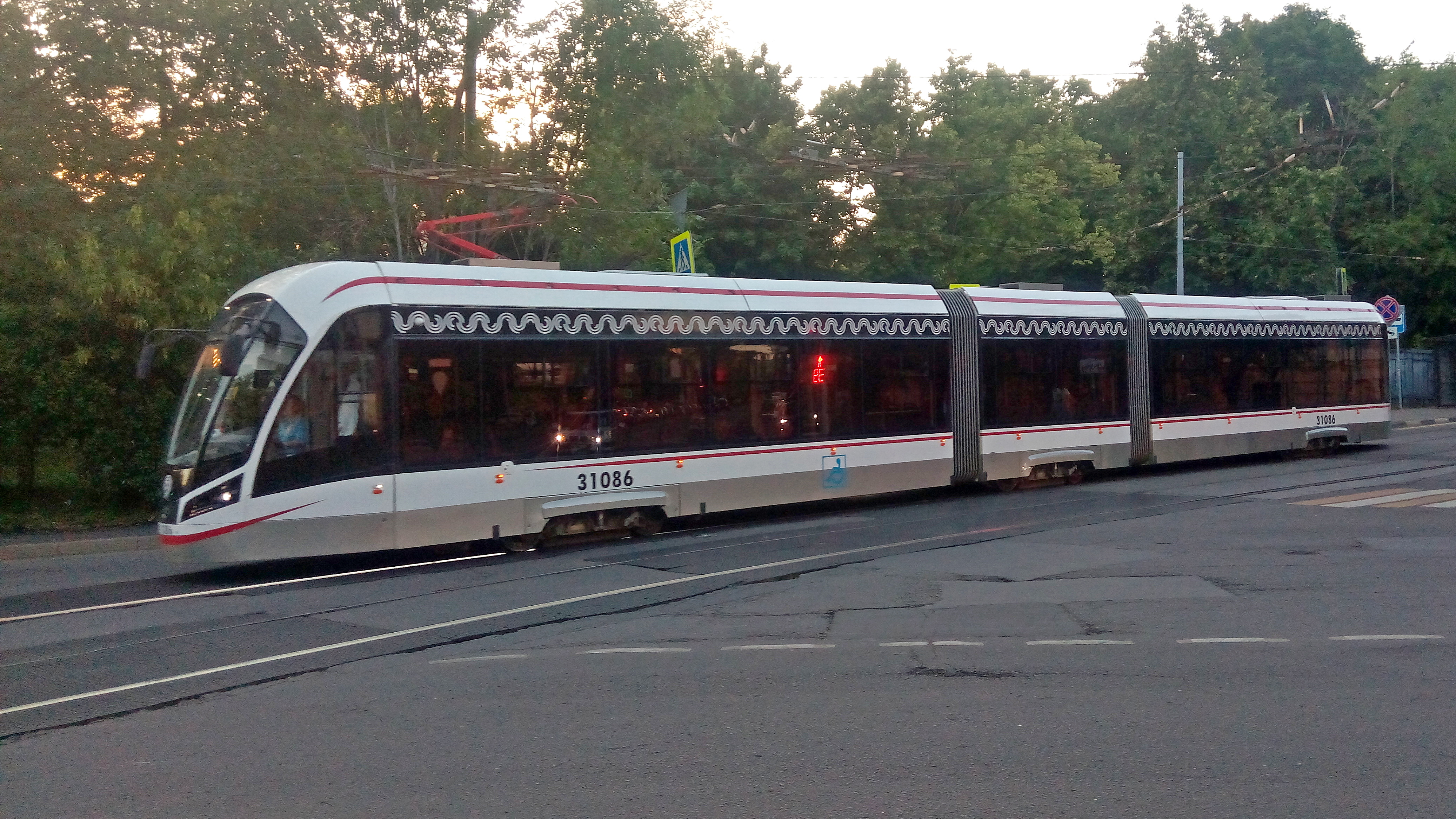 Tram 71-931M "Vityaz" on the streets of Moscow. Summer 2018.